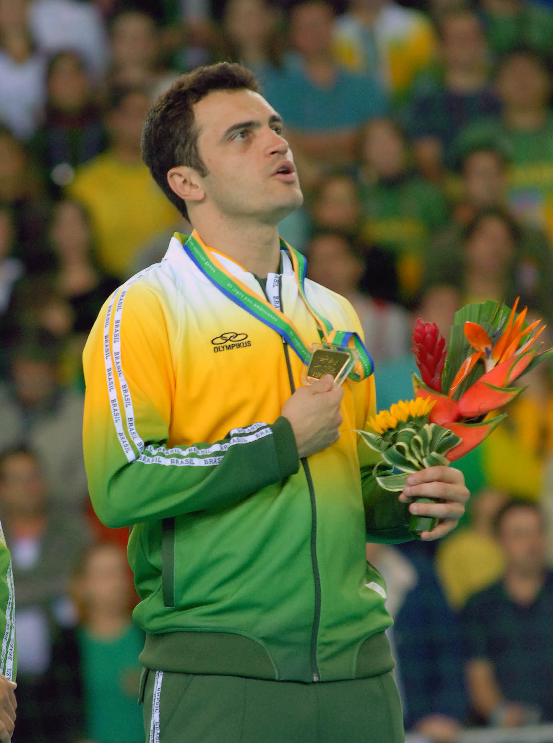 Brazilian Futsal player Falcão wins gold at the 2007 Pan American Games in Rio de Janeiro.